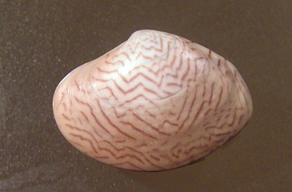 Sunetta meroe C. Linnaeus, 1758; a venus clam from the family Veneridae; India